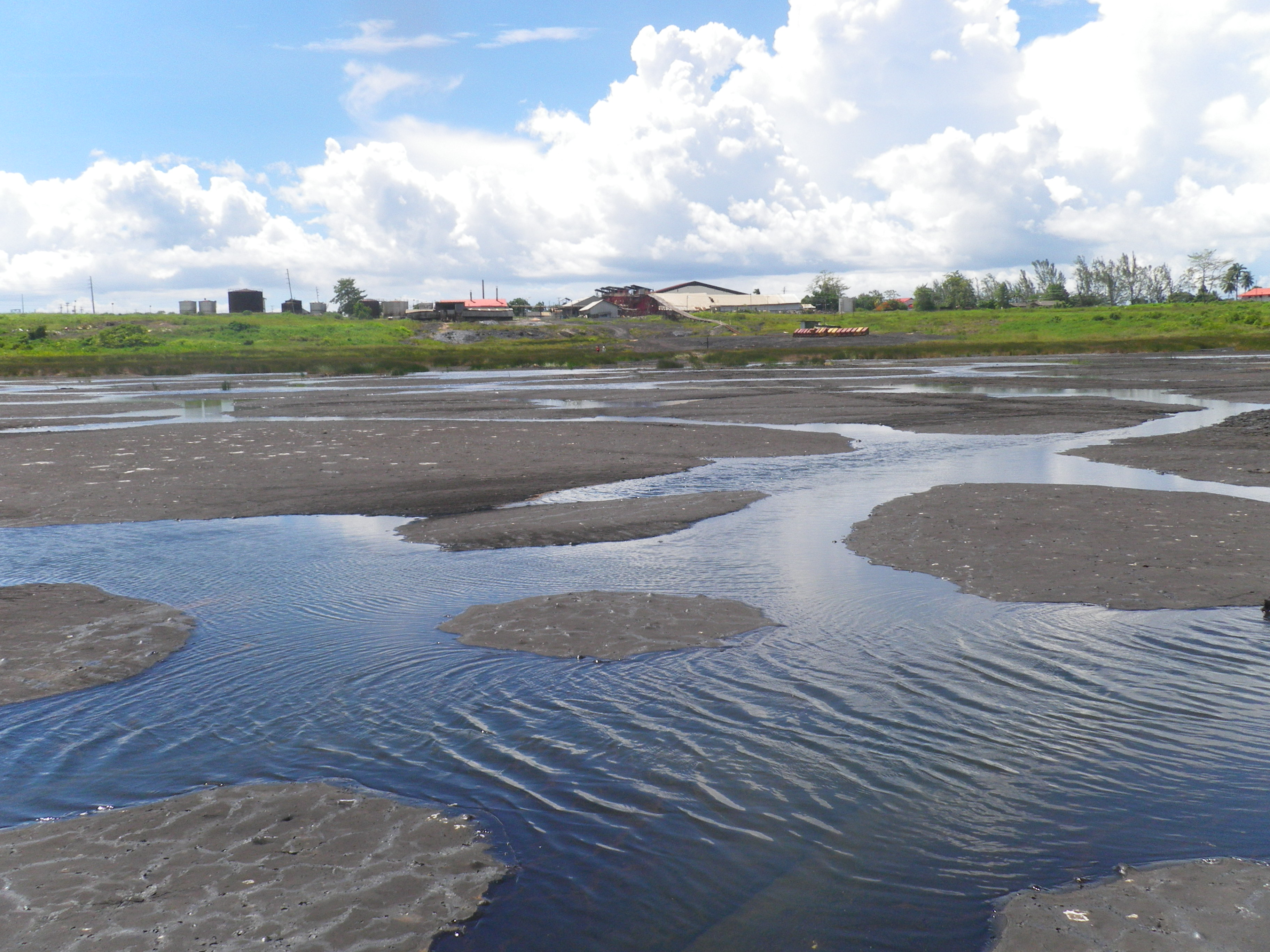 Pitch Lake, La Brea, Trinidad